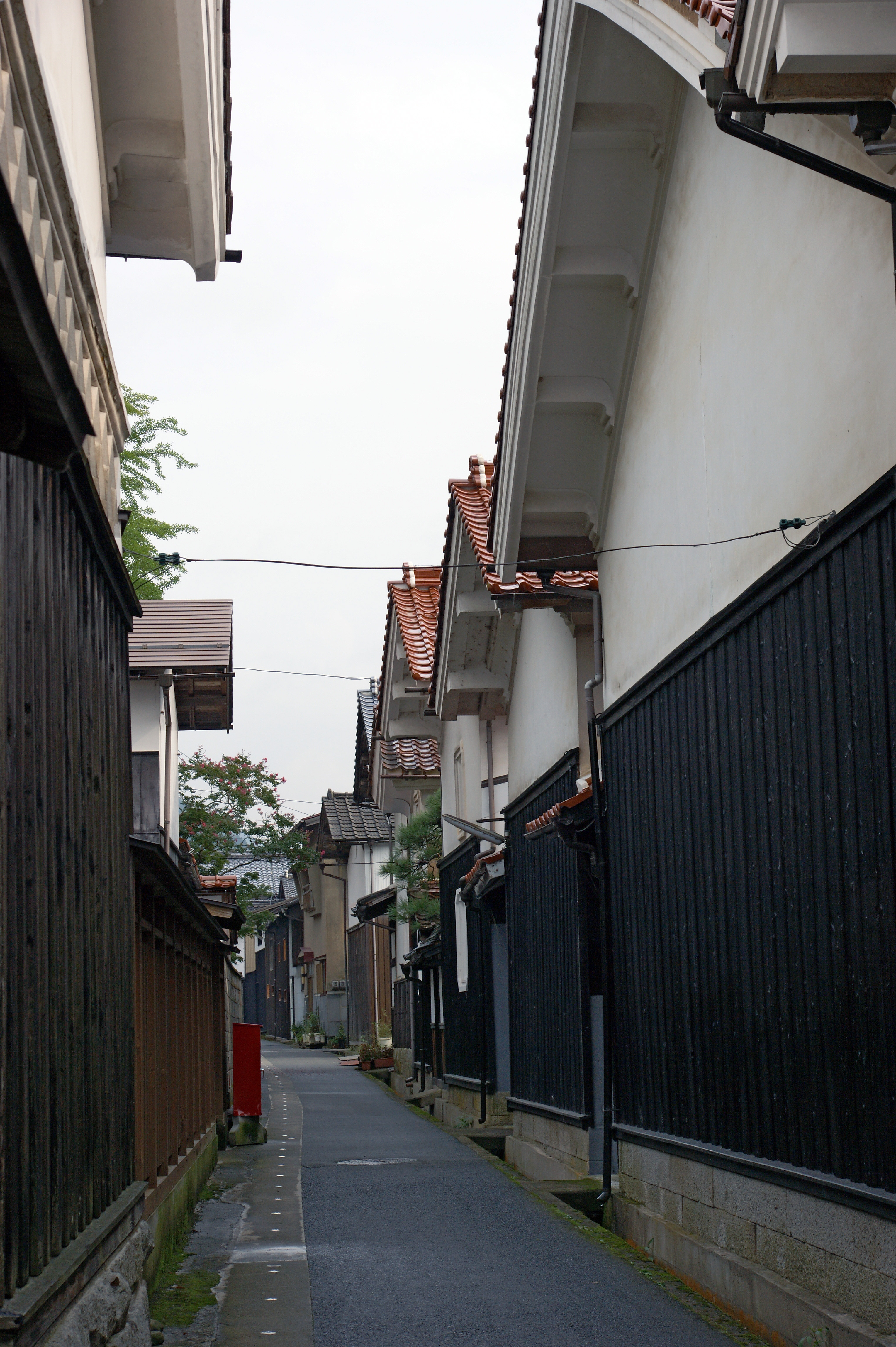 Wakasa-juku in Wakasa, Tottori prefecture, Japan